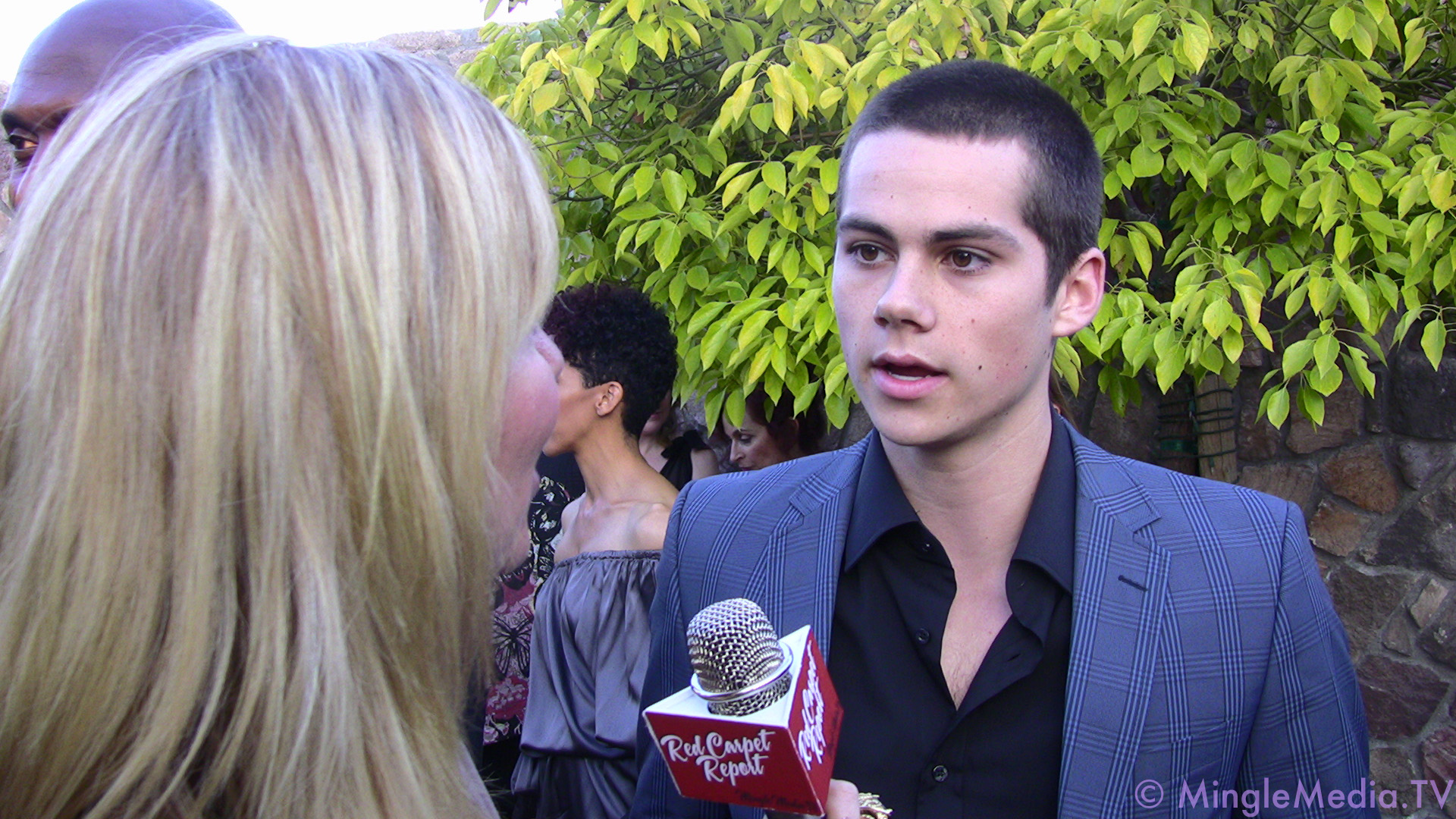 Actor Dylan O'Brien at the 37th Saturn Awards